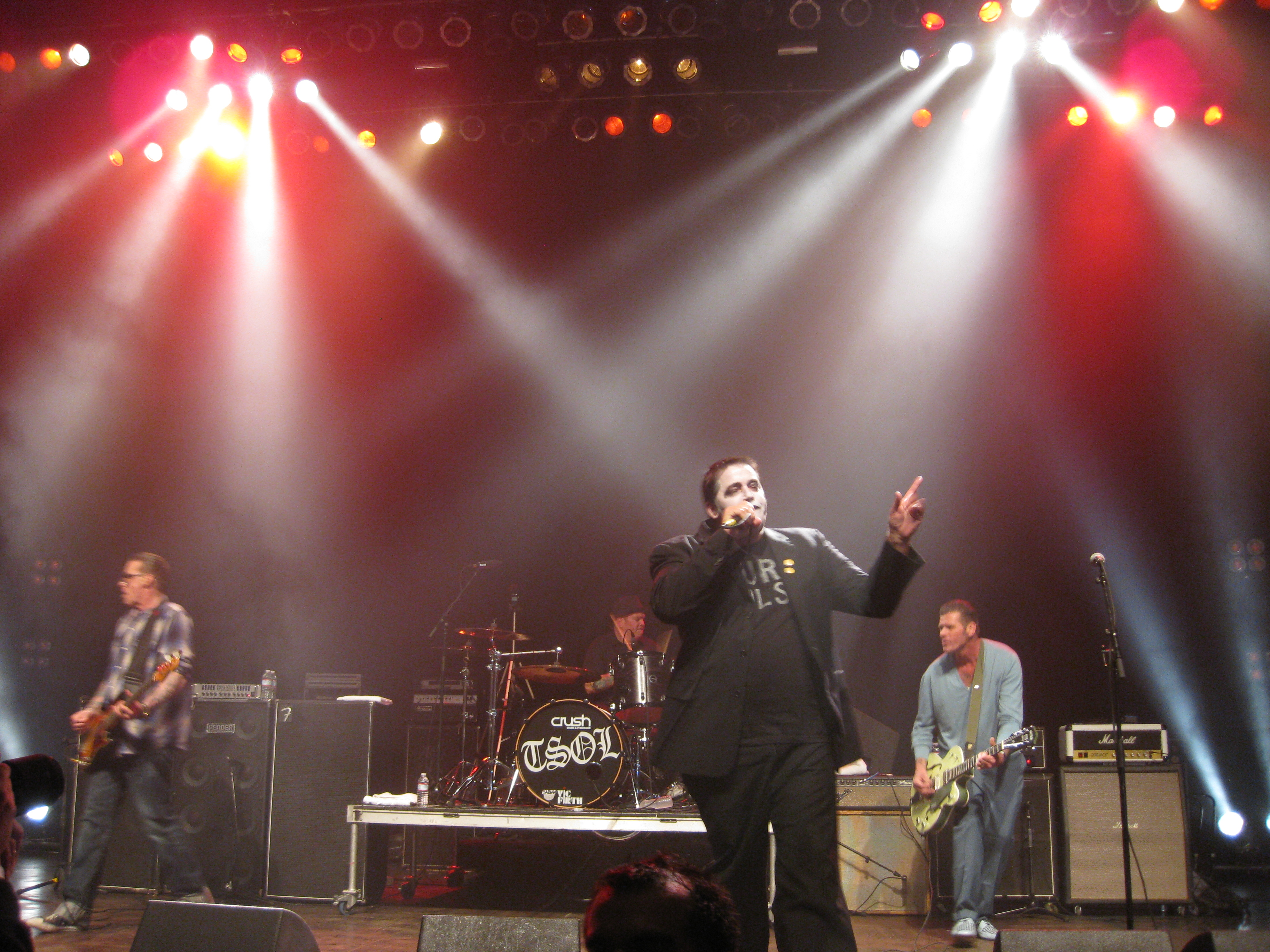 TSOL performing December 17, 2011 at the Santa Monica Civic Auditorium in Santa Monica, California as part of the GV30 event. Left to right: bassist Mike Roche, drummer Tiny Bubz, singer Jack Grisham, and guitarist Ron Emory.